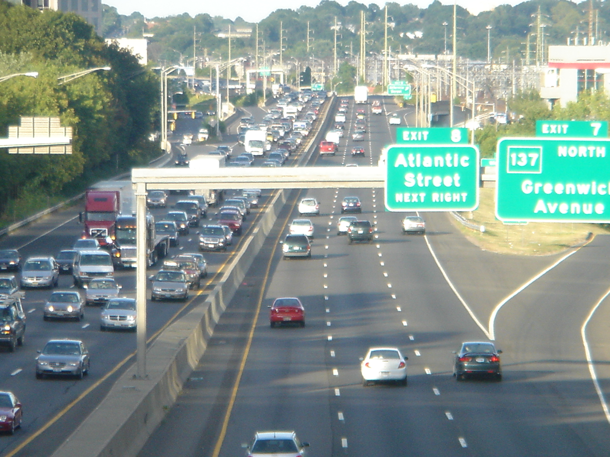 Northbound Connecticut Turnpike as seen from the Fairfield Avenue overpass in Stamford, Connecticut.